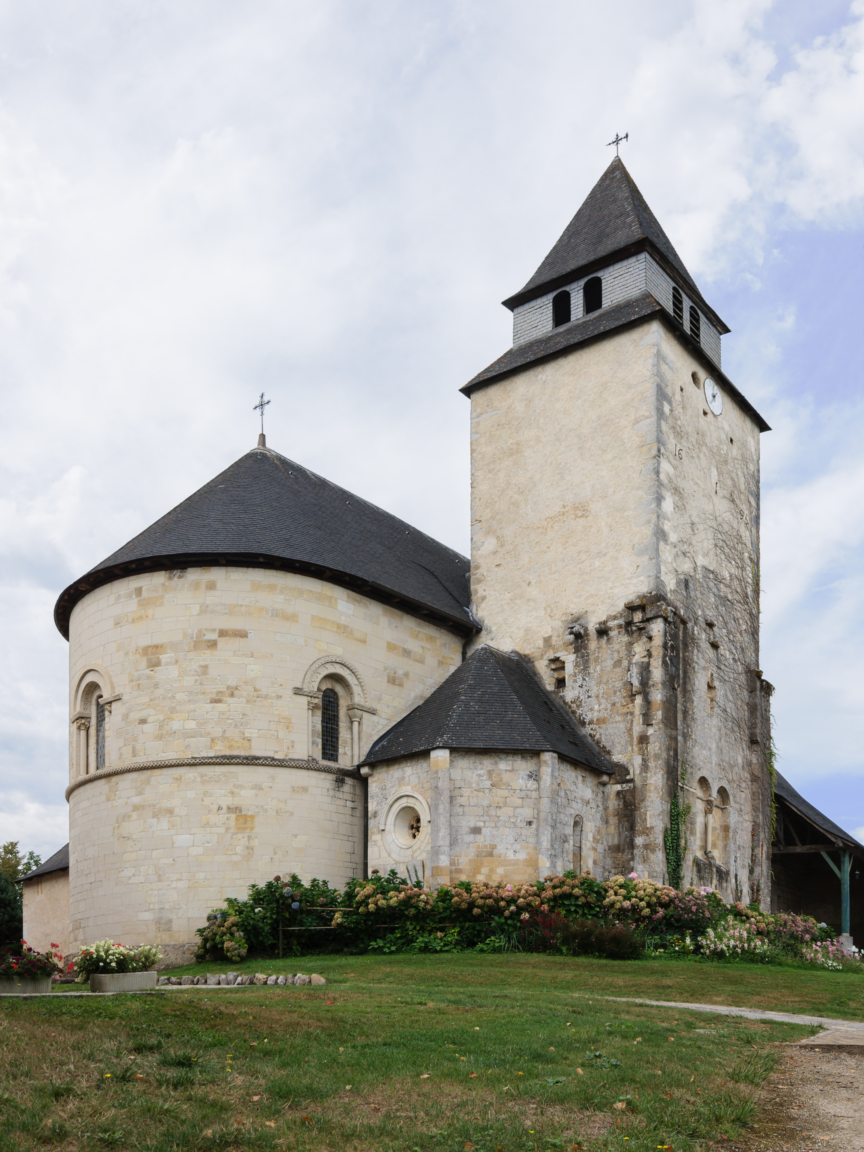 Sainte Blaise church in Lacommande, Pyrénées-Atlantiques, France: view of the apse and of the bell tower .